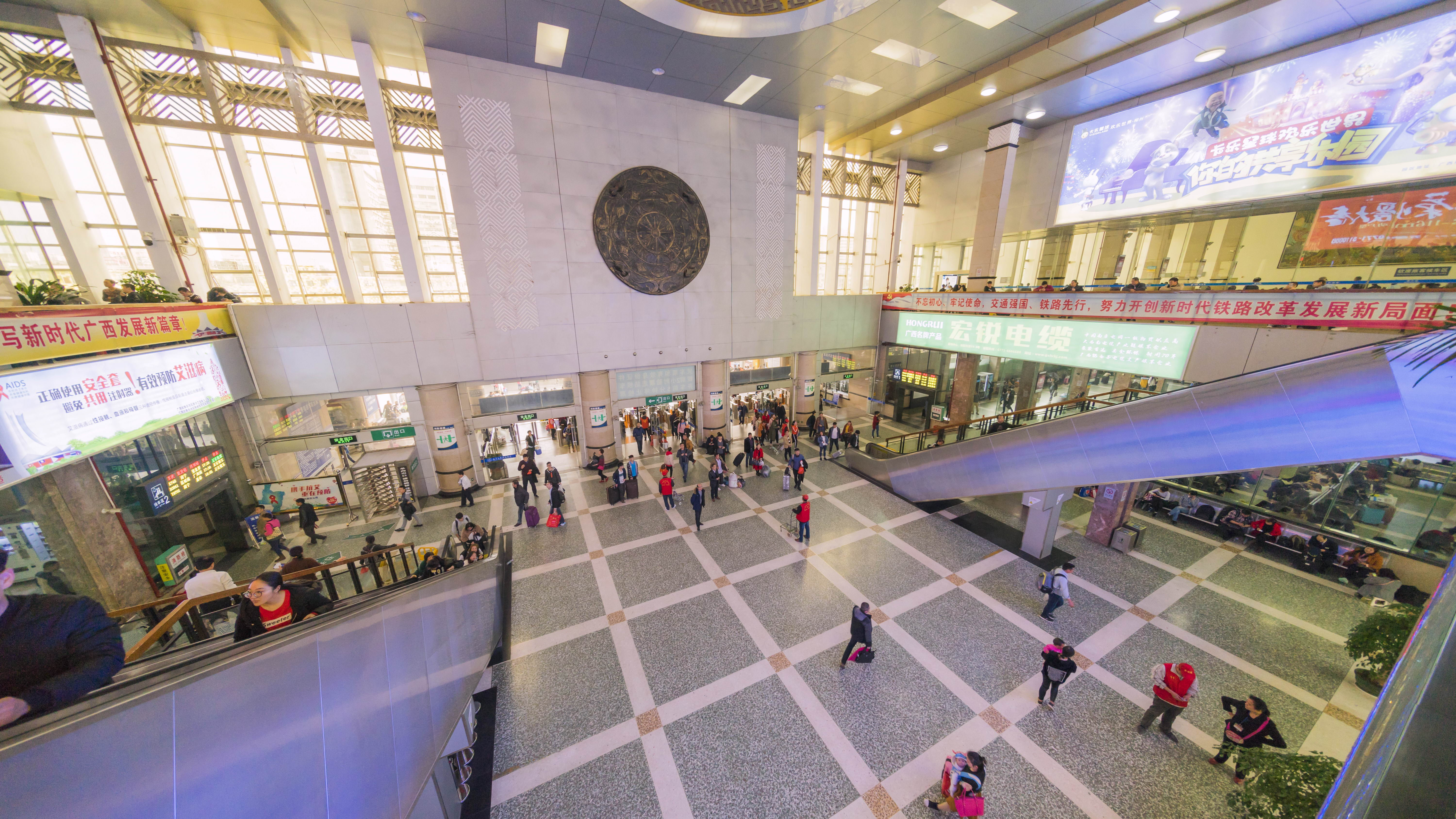 Guangxi, China